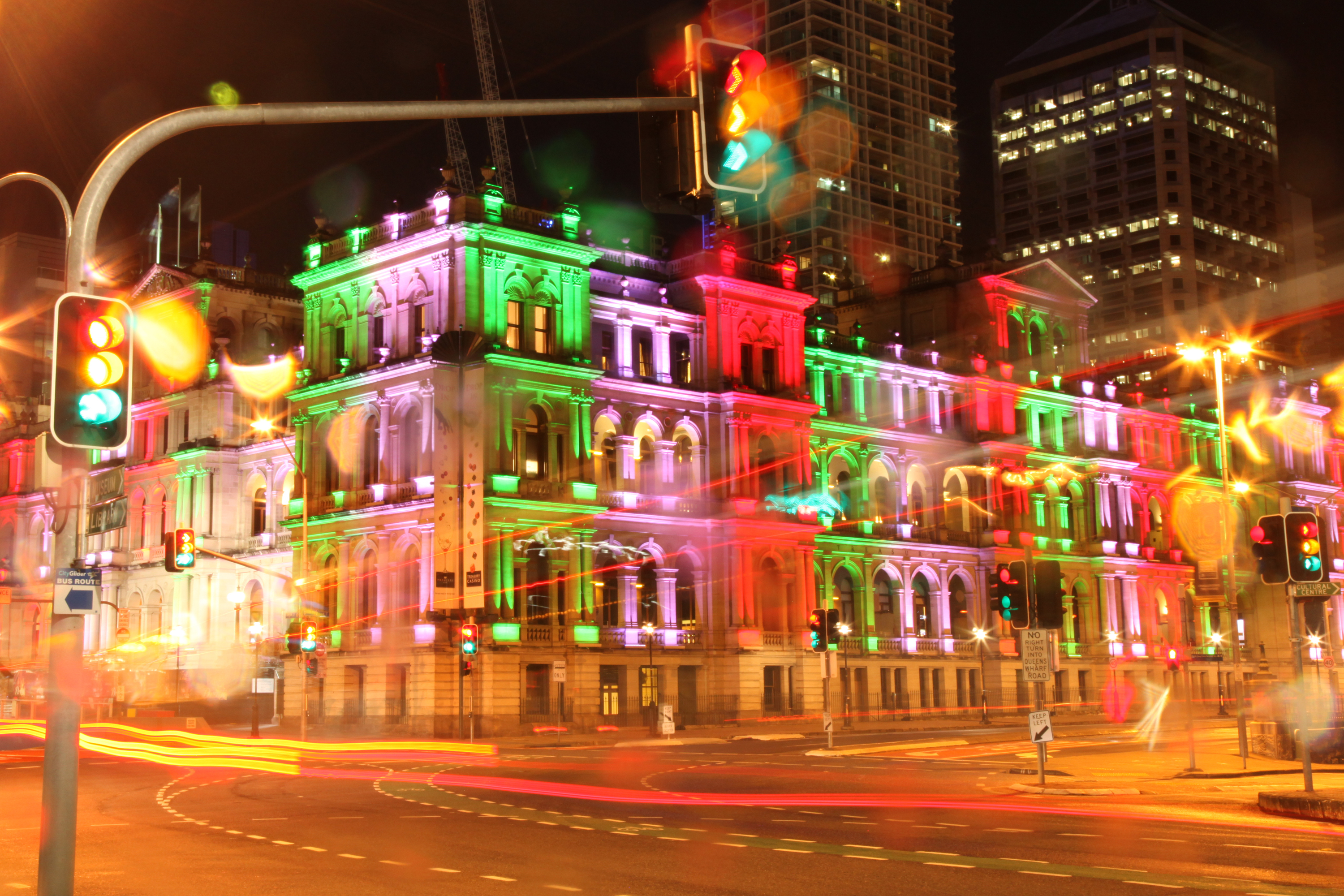 The Treasury Casino at night time, taken from the corner of Victoria Bridge & North Quay, Brisbane on 31 May 2012